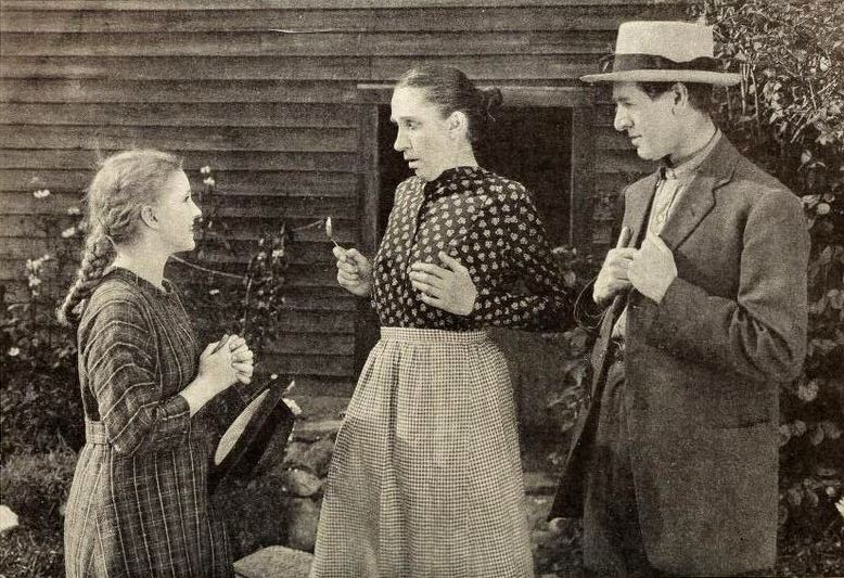 Still from the American comedy drama film Anne of Green Gables (1919) with Mary Miles Minter, Marcia Harris, and Frederick Burton, on page 10 of the April 1920 Moving Picture Age.